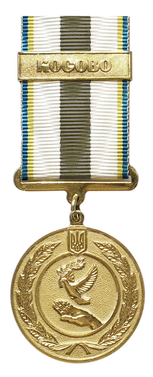 Ministry of Defence of Ukraine and Ministry of Internal Affairs of Ukraine - "Peacekeeping Medal. Kosovo"